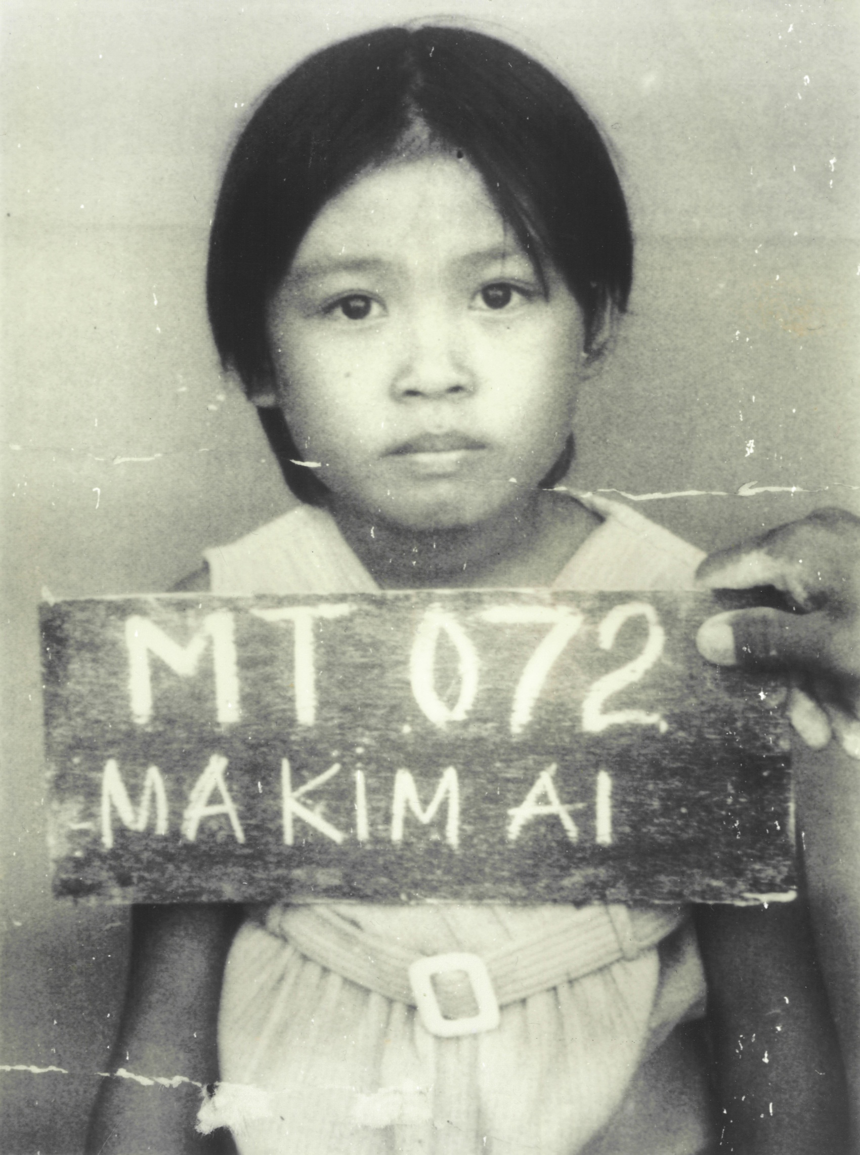 A young Vietnamese refugee in a camp in Malaysia